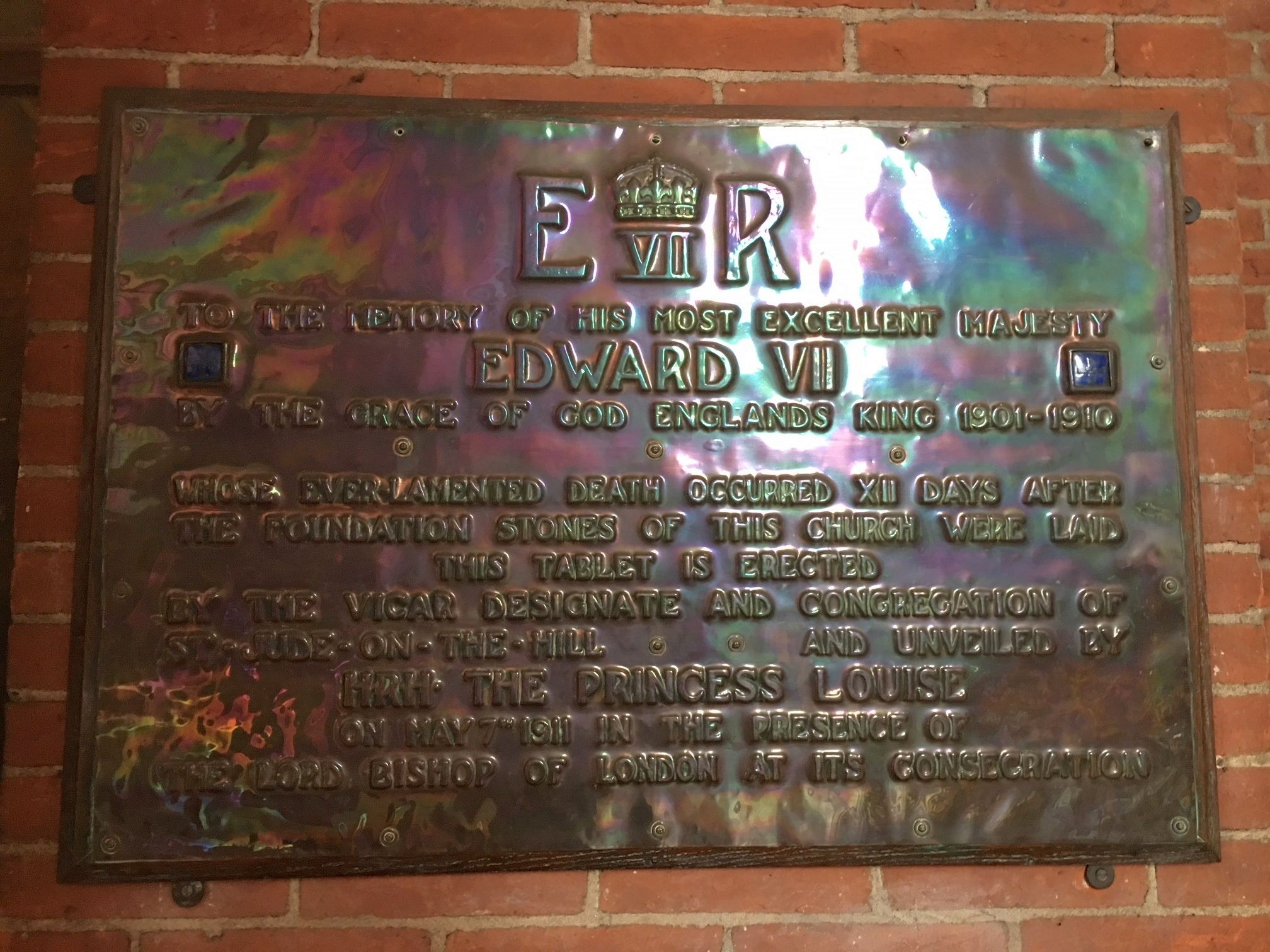 Edward VII memorial in St Jude's Church, Hampstead Garden Suburb